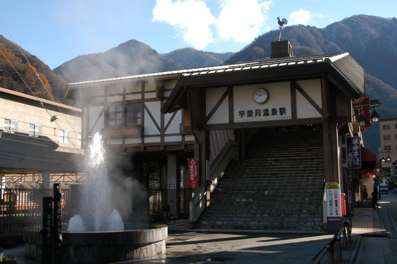 Unazuki-Onsen Station